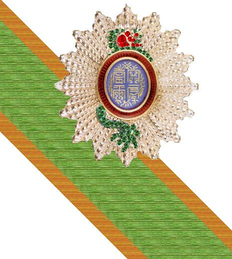 Star and broad ribband (sash) of the Order of the Dragon of Annam